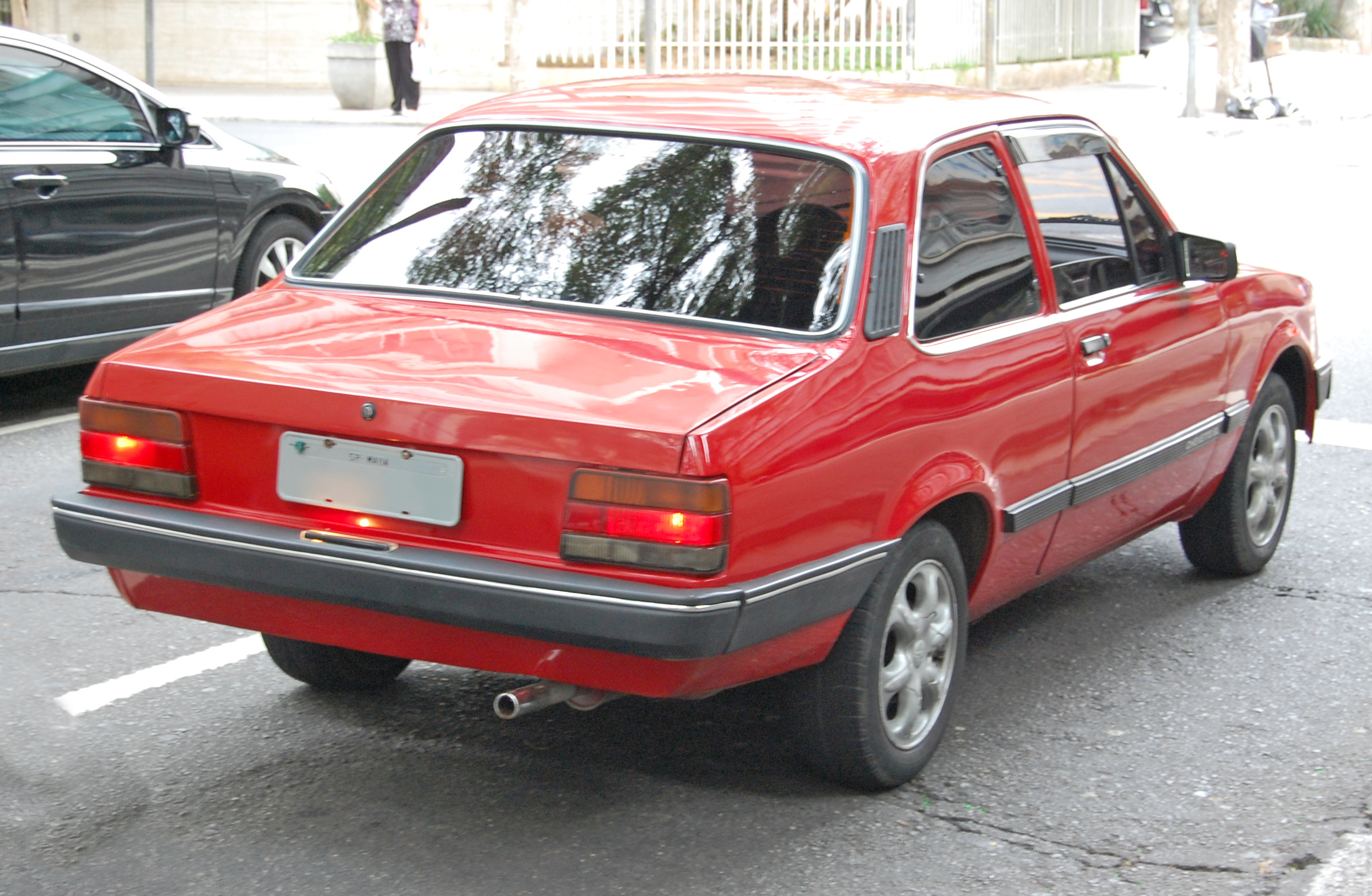 Chevrolet Chevette SL two-door in São Paulo